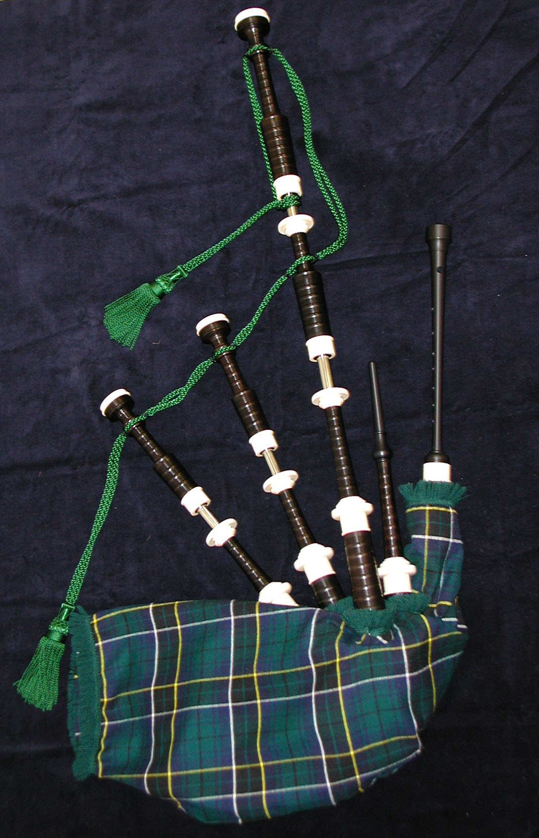 A set of the Great Highland Bagpipes made by D Nail England